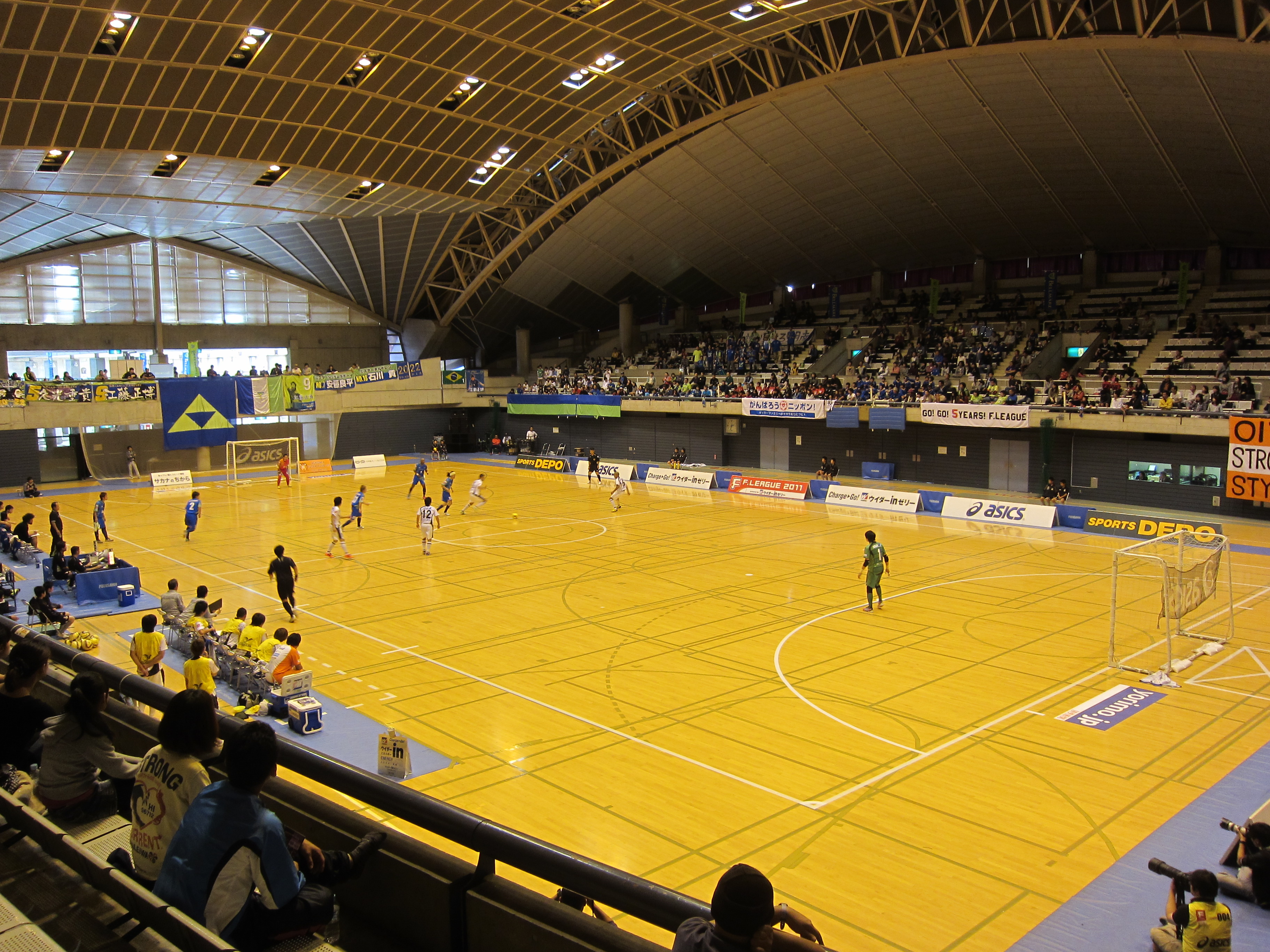 Fujisawa City akibadai Sports Center